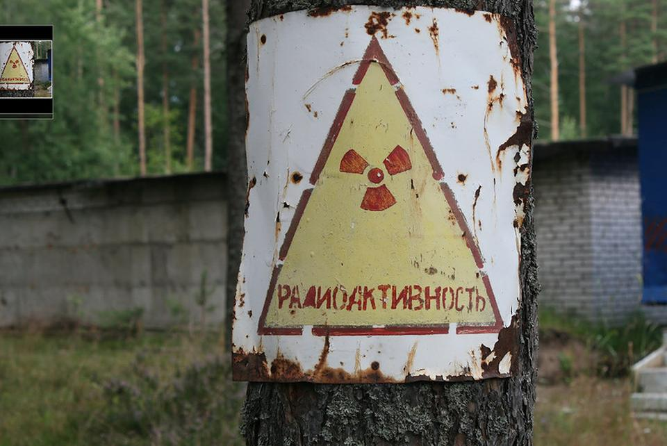 Fort Ino_SPb